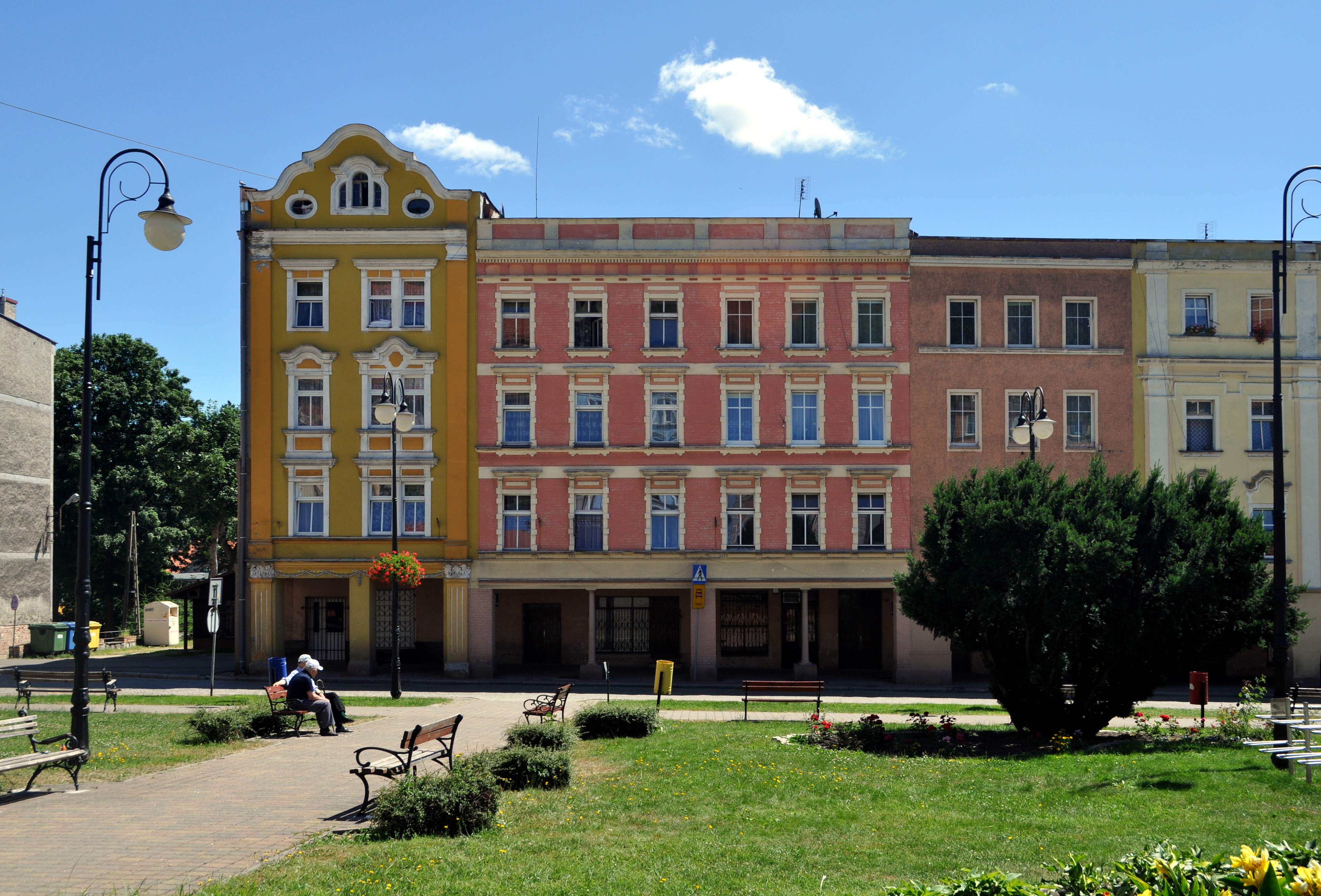 Niepodległości square in Mieroszów